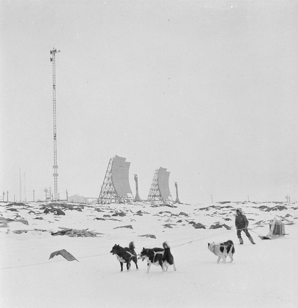 Collections Canada MIKAN number 4949778 Collection page states "Copyright: Expired; Restrictions on Use: Nil" The original NFB caption: The men who man Canada's radar stations are tough; each day they pit their strength, their wits, their intelligence and their endurance against savage weather conditions, where the temperature drops mercilessly to 60 degrees below zero, and against the inevitable loneliness which accompanies the desolate isolation of these vital outposts. Only a few crack, the majority grow tall. Notes: The image appears to be a Mid-Canada Line (MCL) station, although there is a small possibility this is a AN/FPS-23 radar of the DEW line (FPS-23 generally used rectangular antennas, not round as in this image). The large tower on the left is the radar mast, which in this case has antennas facing only one direction, whereas most would have a second set pointed towards the next tower in the chain. The large parabolic antennas in the middle of the image are part of the tropospheric-scatter radio system that sends data to NORAD.